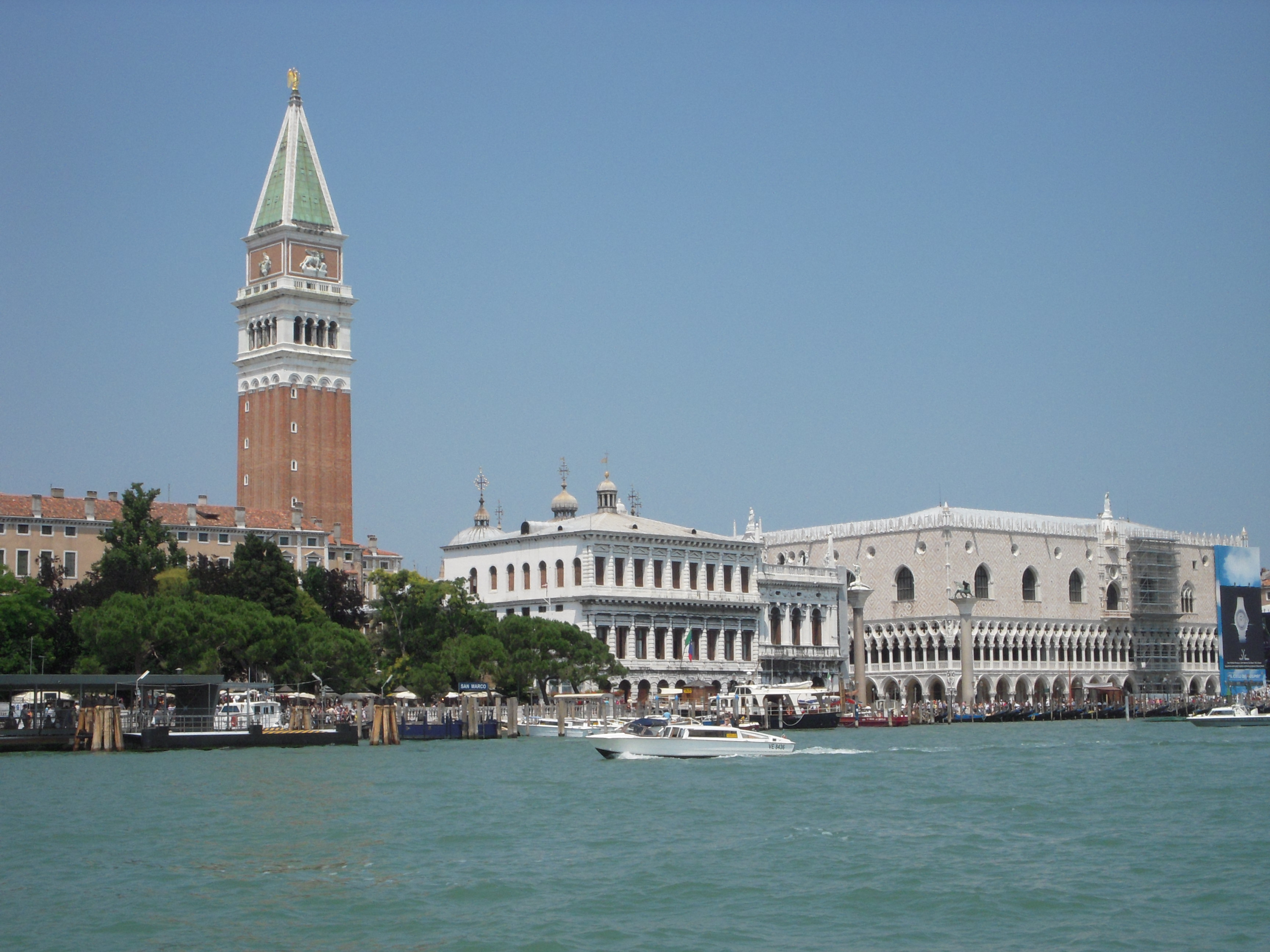 The neighborhood around St. Marcus Square with the Campanile, the Doges Palace etc. seen from a vaporetto on the Canal Grande in Venice. June 28, 2010.